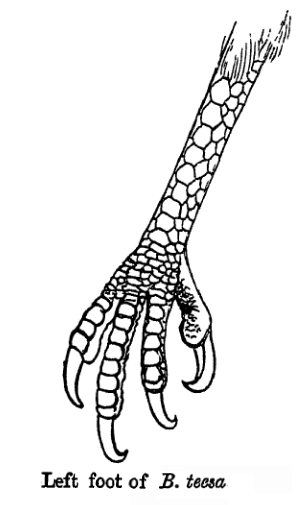 Foot of Butastur teesa (White eyed Buzzard)